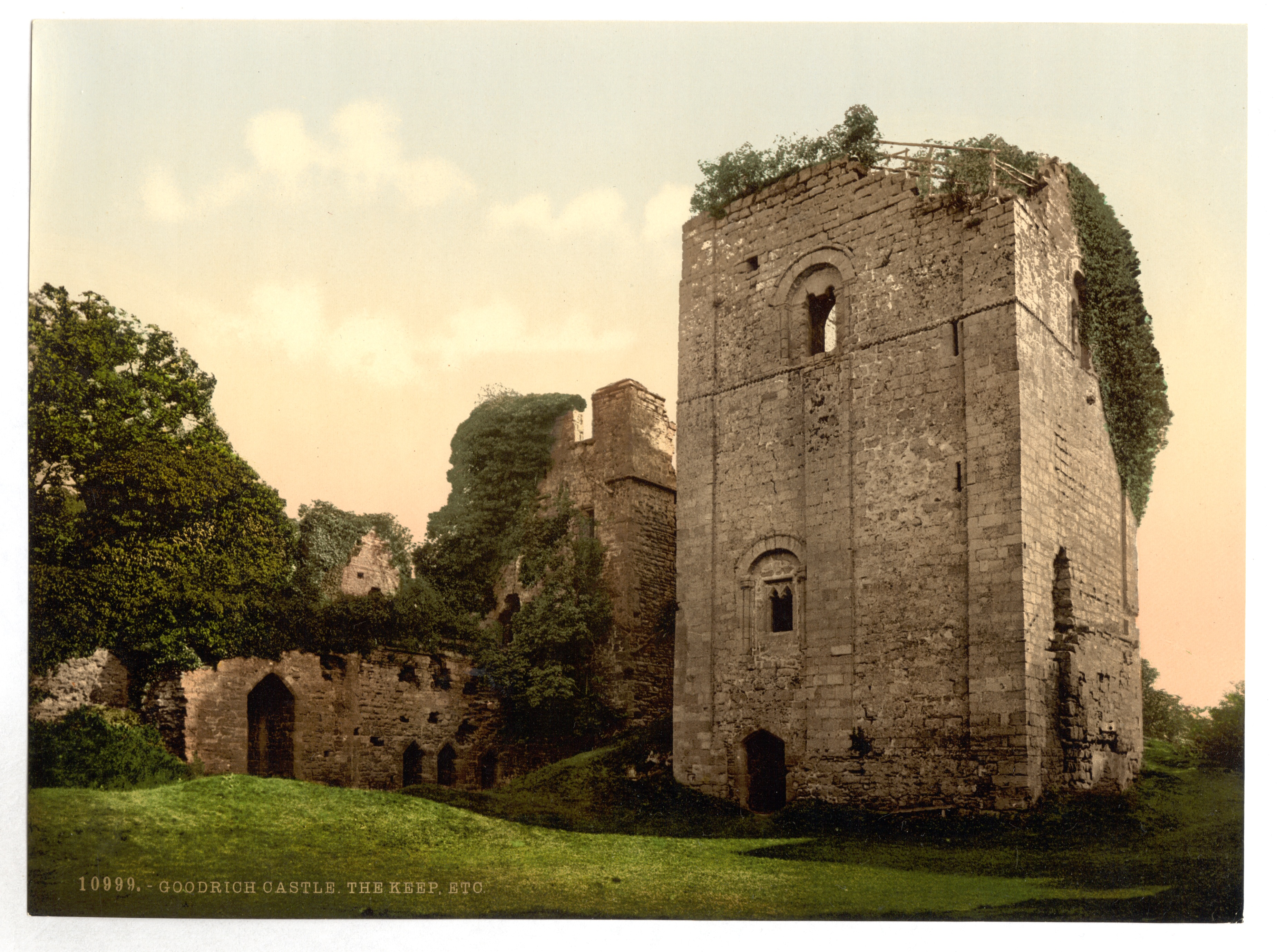 Forms part of: Views of the British Isles, in the Photochrom print collection.; More information about the Photochrom Print Collection is available at Title from the Detroit Publishing Co., Catalogue J-foreign section, Detroit, Mich. : Detroit Publishing Company, 1905.; Print no. "10999".